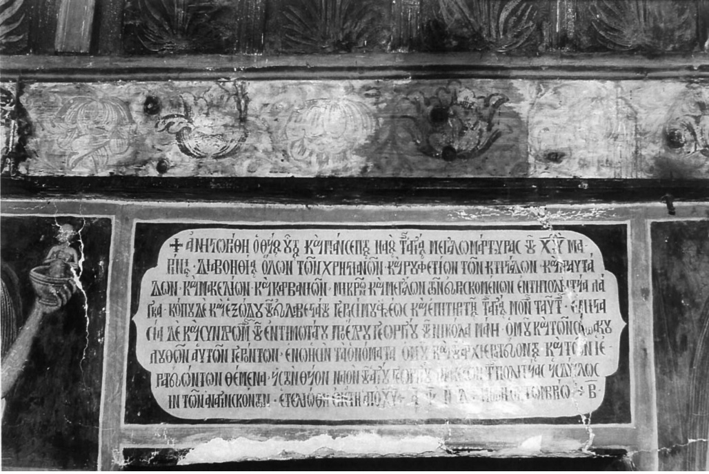 Dedicatory inscription in the Monastery of Agia Marina, Pogradec, Albania. 1754. In Greek.